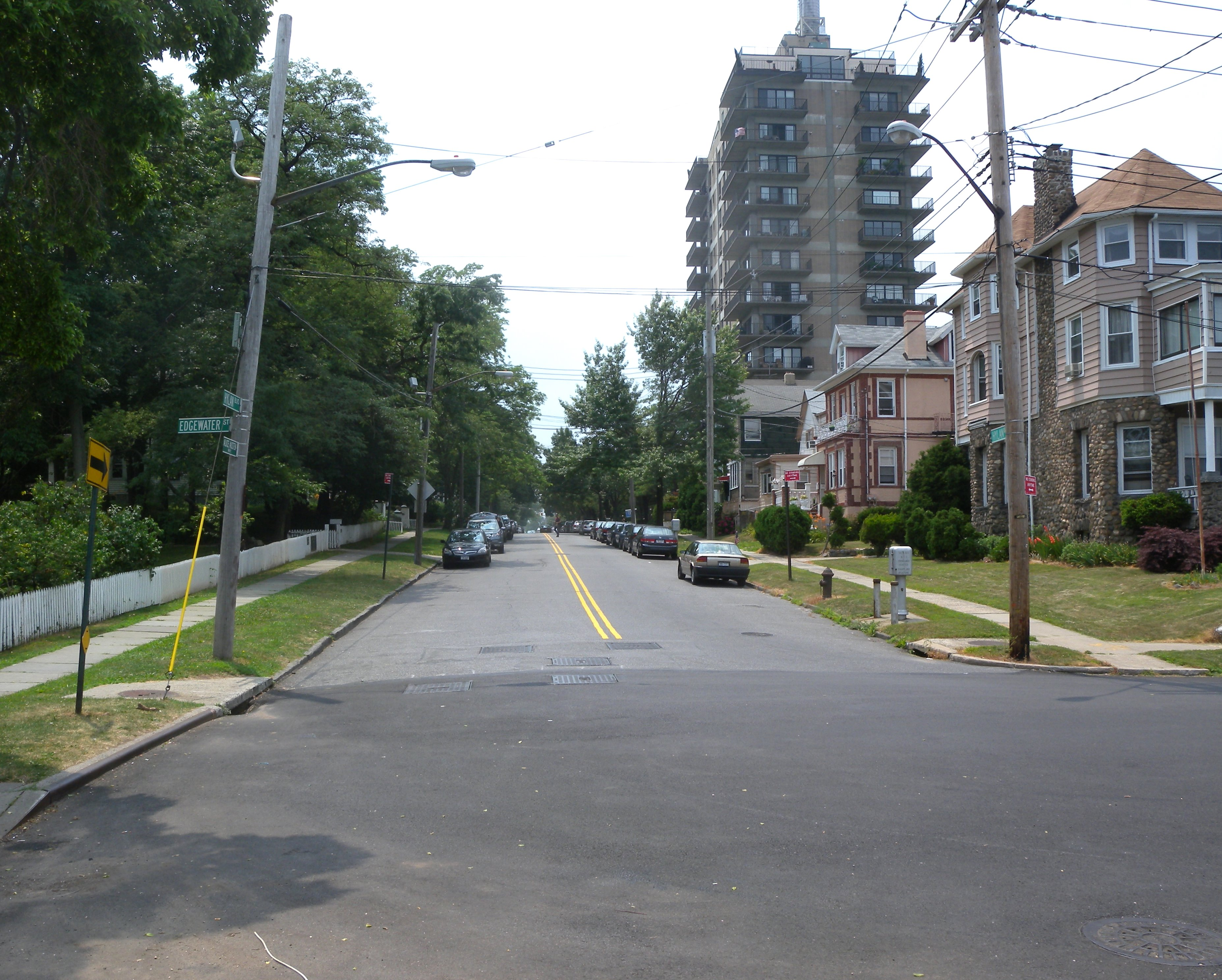 Looking southwest up Hylan Boulevard from Buono Beach on a mostly cloudy early afternoon.